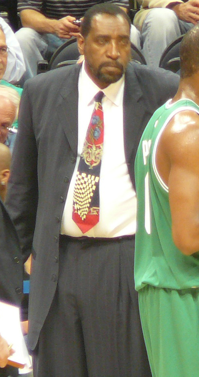 image: Licensing: ==